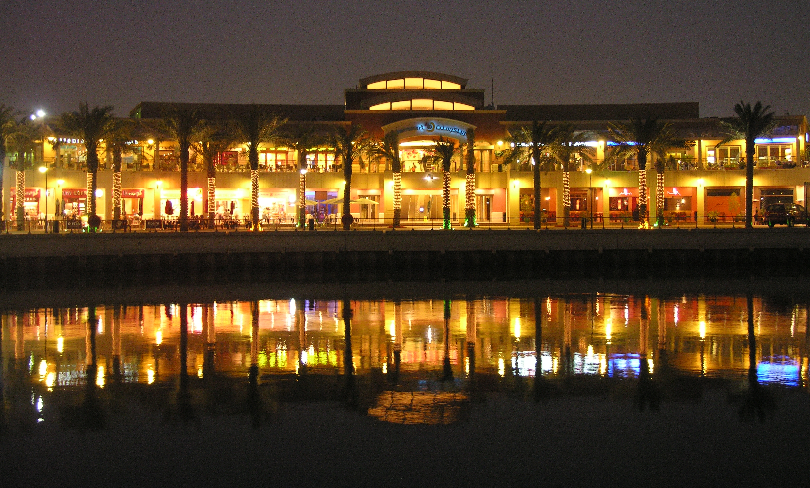 Marina Crescent In Kuwait